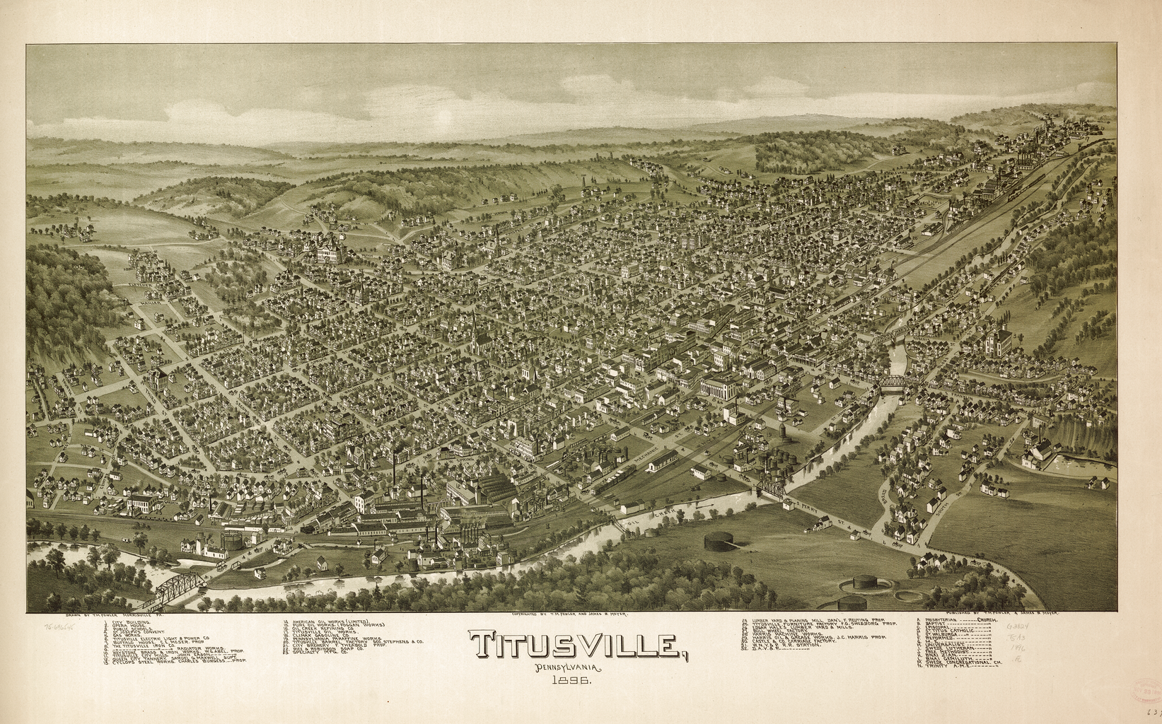 "Titusville, Pennsylvania, 1896" by Thaddeus Mortimer Fowler, around 1896